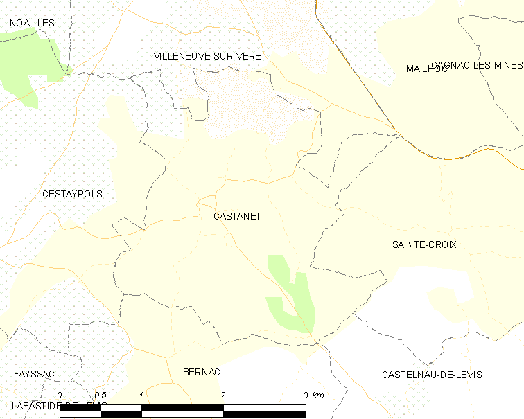 Map of French municipality Castanet